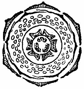 A "floral diagram" for the pomegranate (Punica granatum)